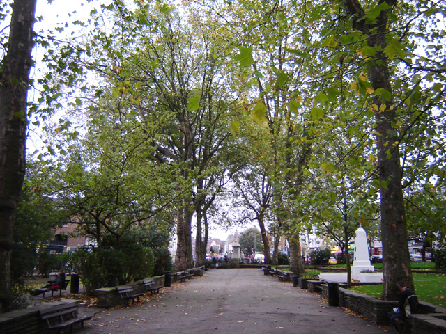 Islington Green, Islington, London, looking south. 5 November 2005. Photographer: Fin Fahey.